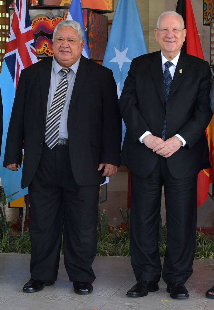 The President of Israel, Reuven Rivlin landed in Fiji, was welcomed on the island in a traditional ceremony and led a first summit meeting of the Pacific nation's. Thursday, February 20, 2020. Credit Photo: Kobi Gideon / GPO. President Rivlin leads historic summit meeting with Pacific Island states. Federated States of Micronesia Embassy Charge D’Affaires Wilson Waguk, Solomon Islands Minister for Foreign Affairs Jeremiah Manele, Deputy Prime Minister of Tuvalu Minute Alapati Taupo, Samoan Prime Minister Tuilaepa Lupesoliai Sailele Malielegaoi, Israeli President Reuven Rivlin, Fijian Prime Minister Voreqe Bainimarama, Prime Minister of Papua New Guinea James Marape, Deputy Prime Minister of Tonga Sione Vuna Fa'otusia, Minister for Internal Affairs of Vanuatu Andrew Solomon Napuat at the Pullman Nadi Bay Resort and Spa on February 20, 2020.